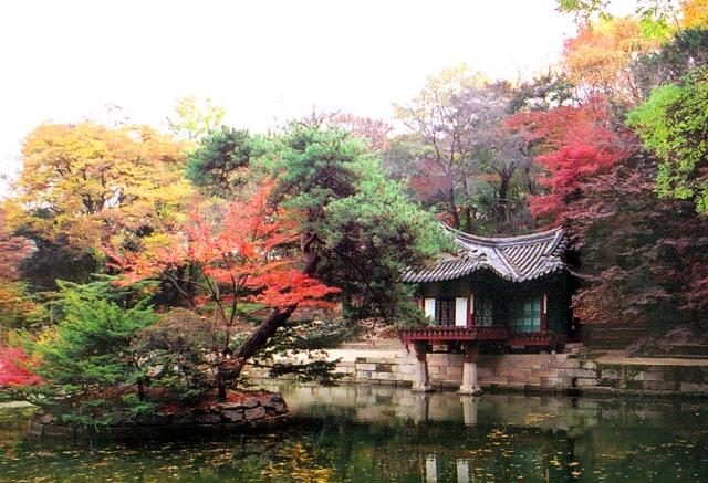 Changdeok-gung Huwon.